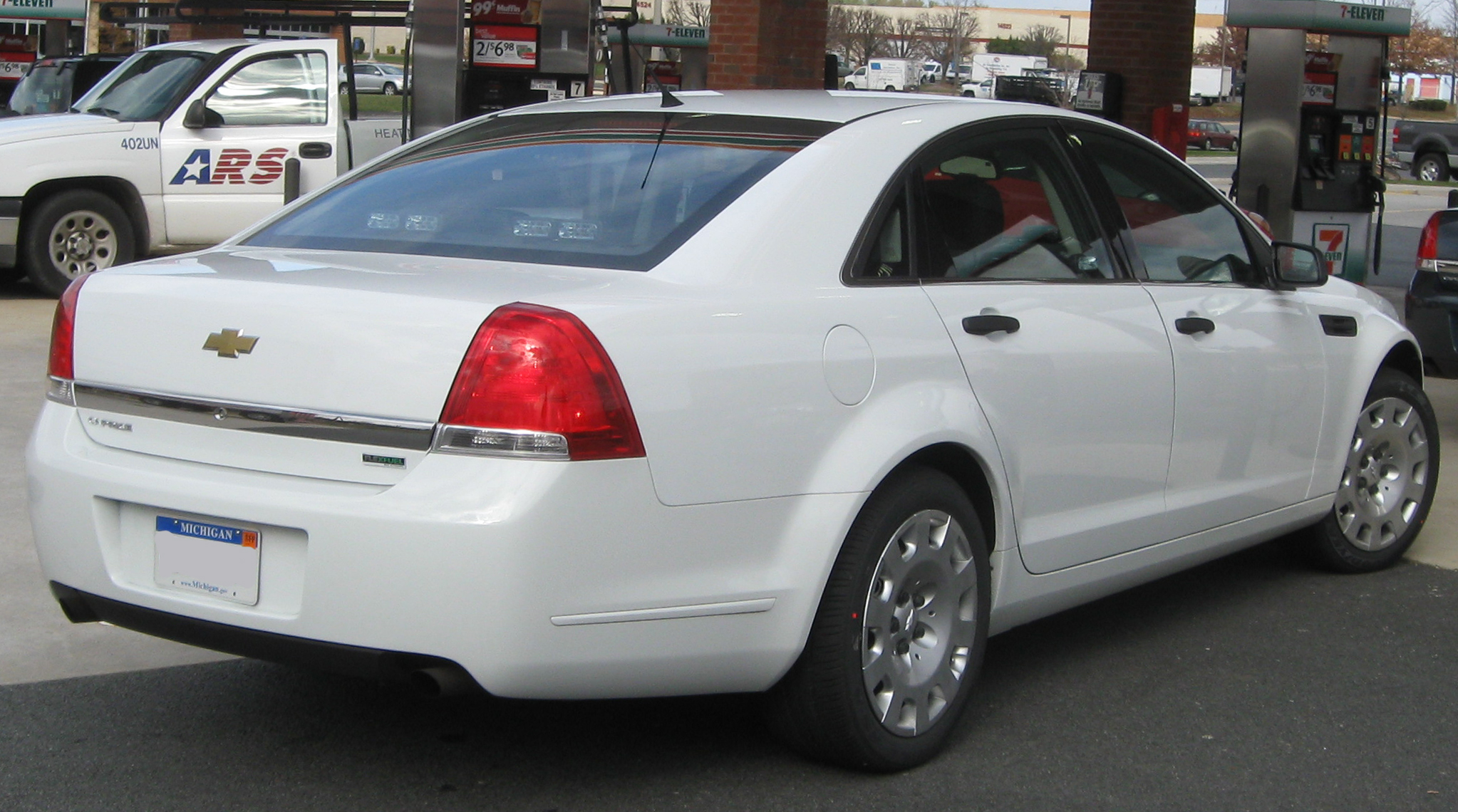 2011 Chevrolet Caprice photographed in Chantilly, Virginia, USA.